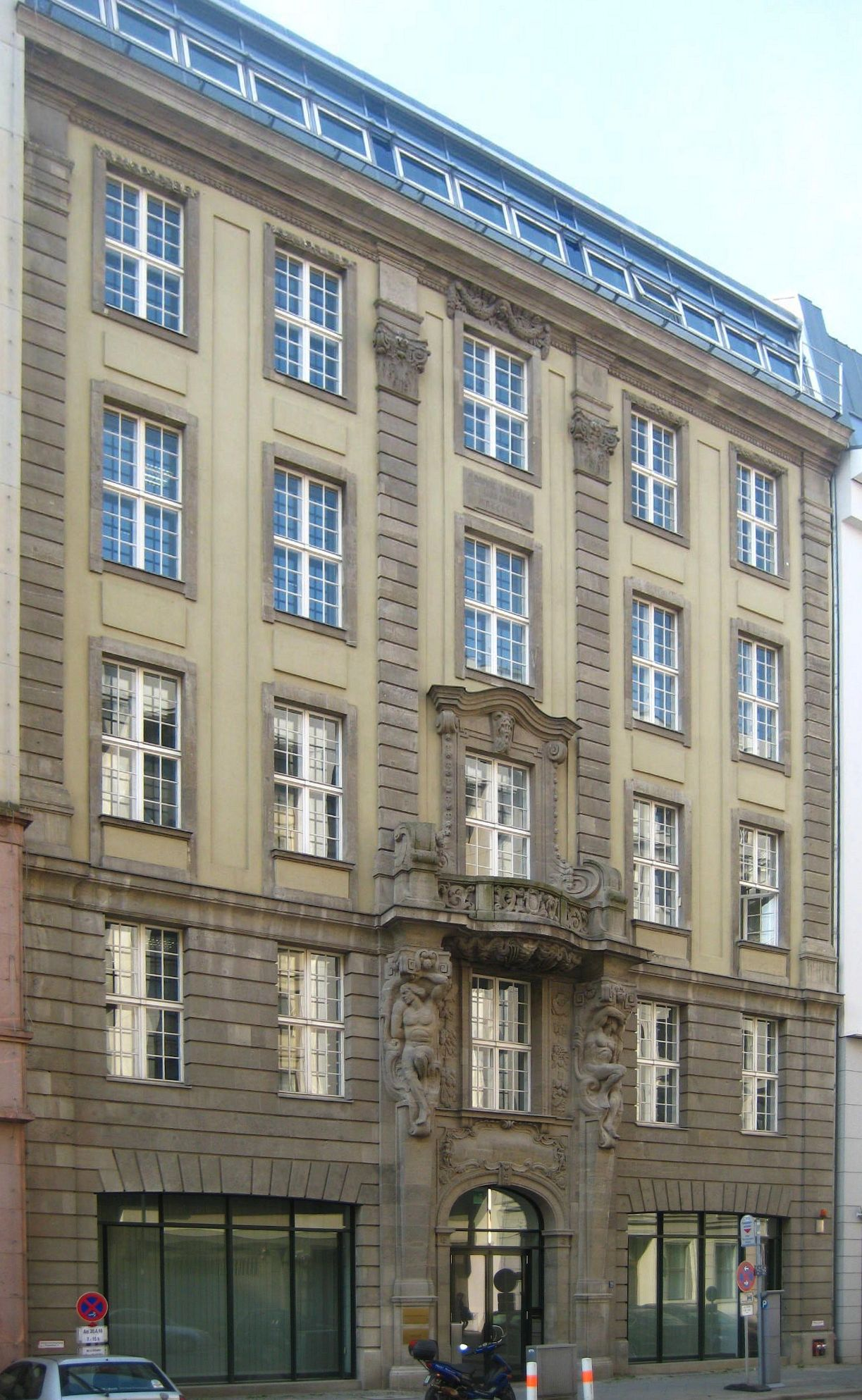 Former commercial building of the Patzenhofer Brewery at Taubenstraße No. 10 in Berlin-Mitte. It was built from 1906 to 1907 to a design by the architect Hermann Dernburg. The building has been dedicated as a historic landmark.